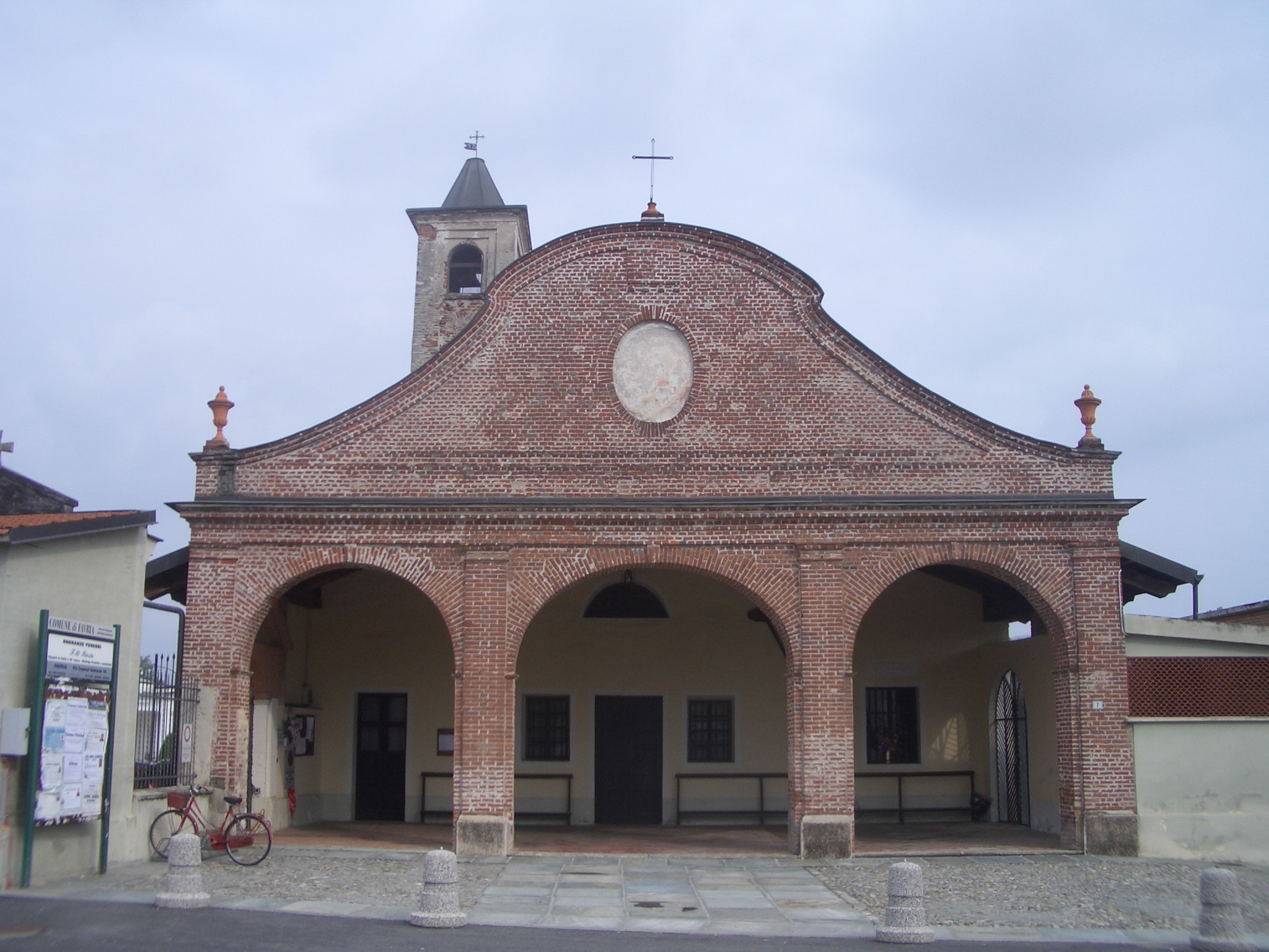 San Pietro Vecchio church , The church facade, Favria, Turin, Italy